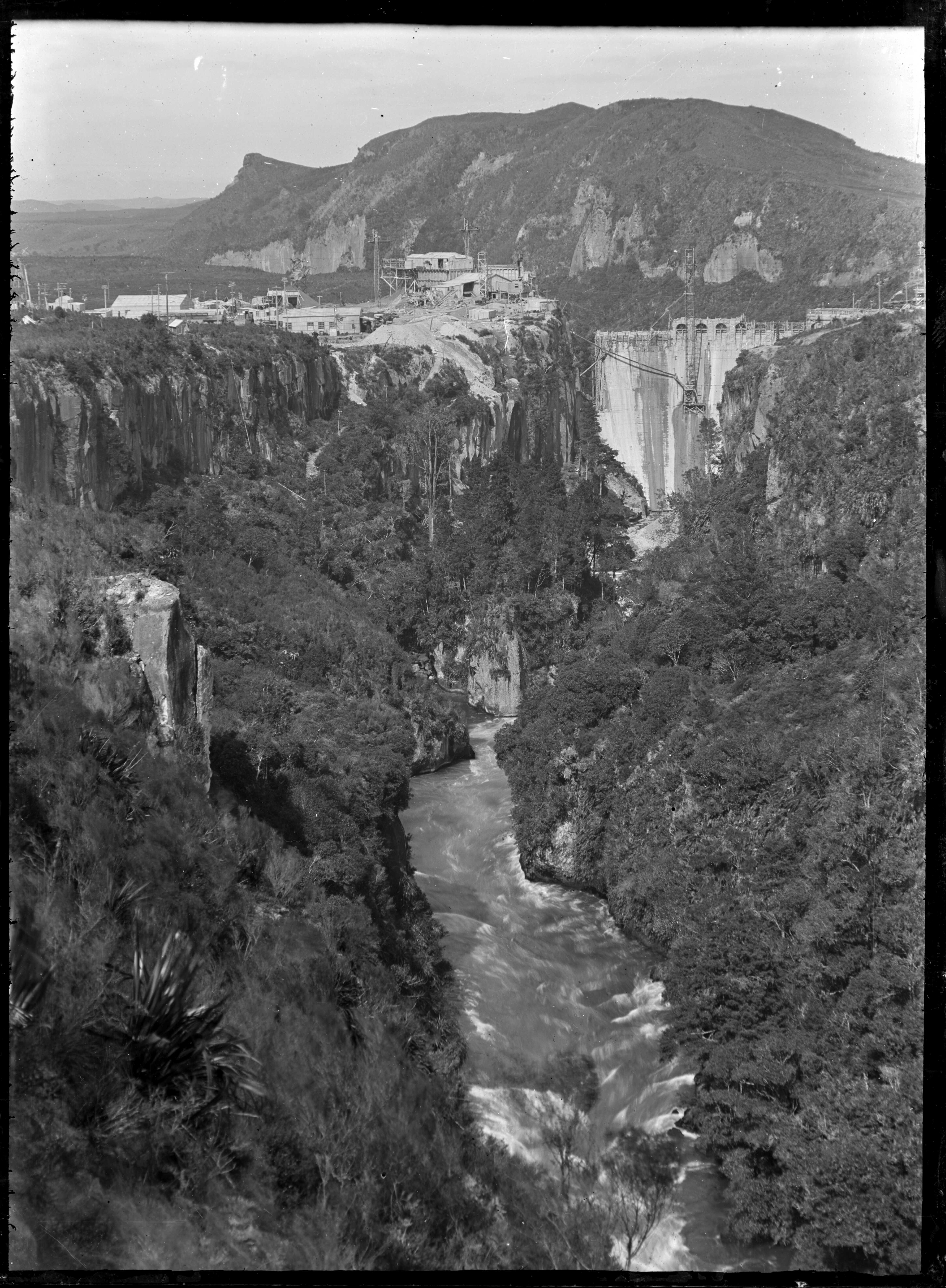 View of the Arapuni Dam under construction, circa 1928. Photographed by Albert Percy Godber.